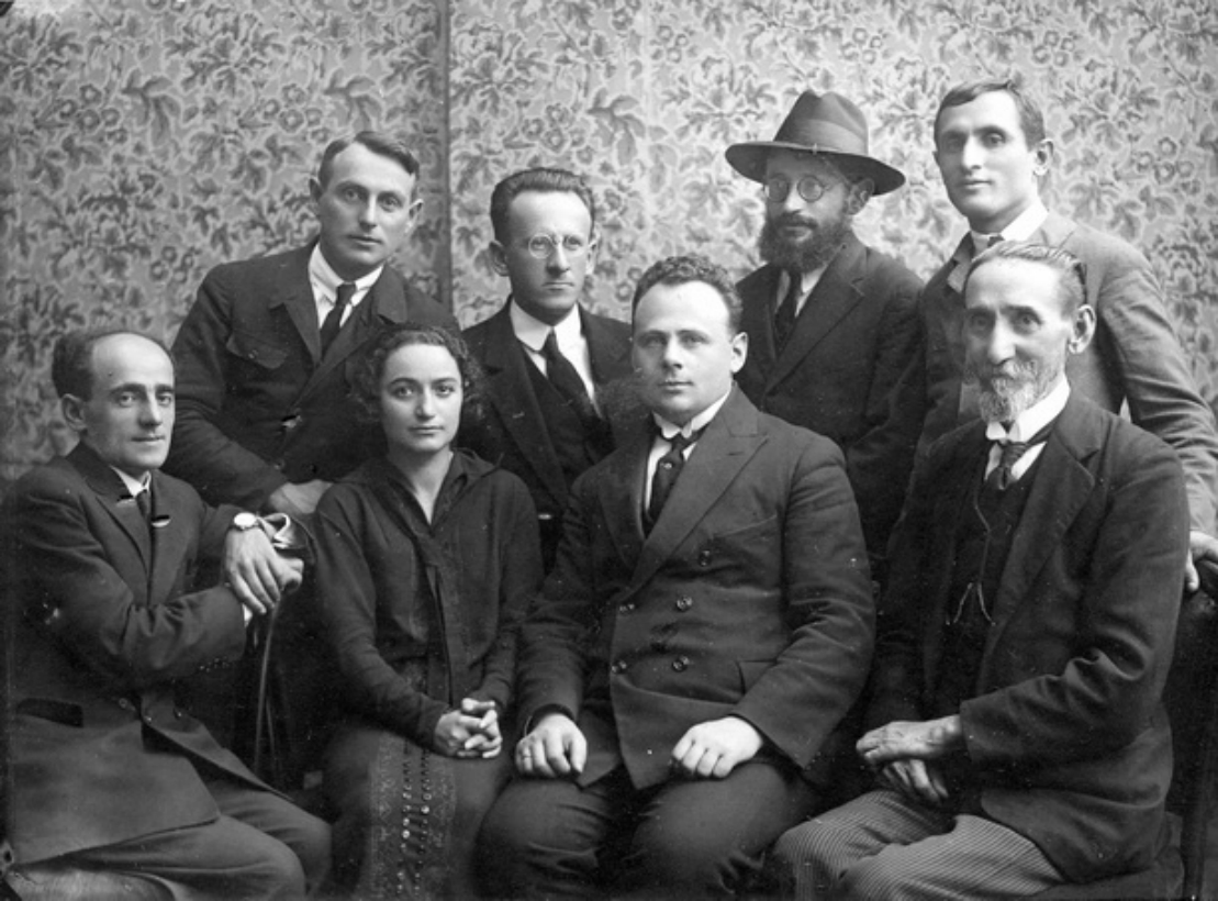 Jerusalem Head Office from Keren Hayesod in Poland (sitting from right to left) 2- Isaiah Horowitz 4- Abraham Shmuel Yuris (Juris) (standing from right to left) 3-Noah Baron, 4- Haim Shorer. standing from right 1-Shmuel Dayan